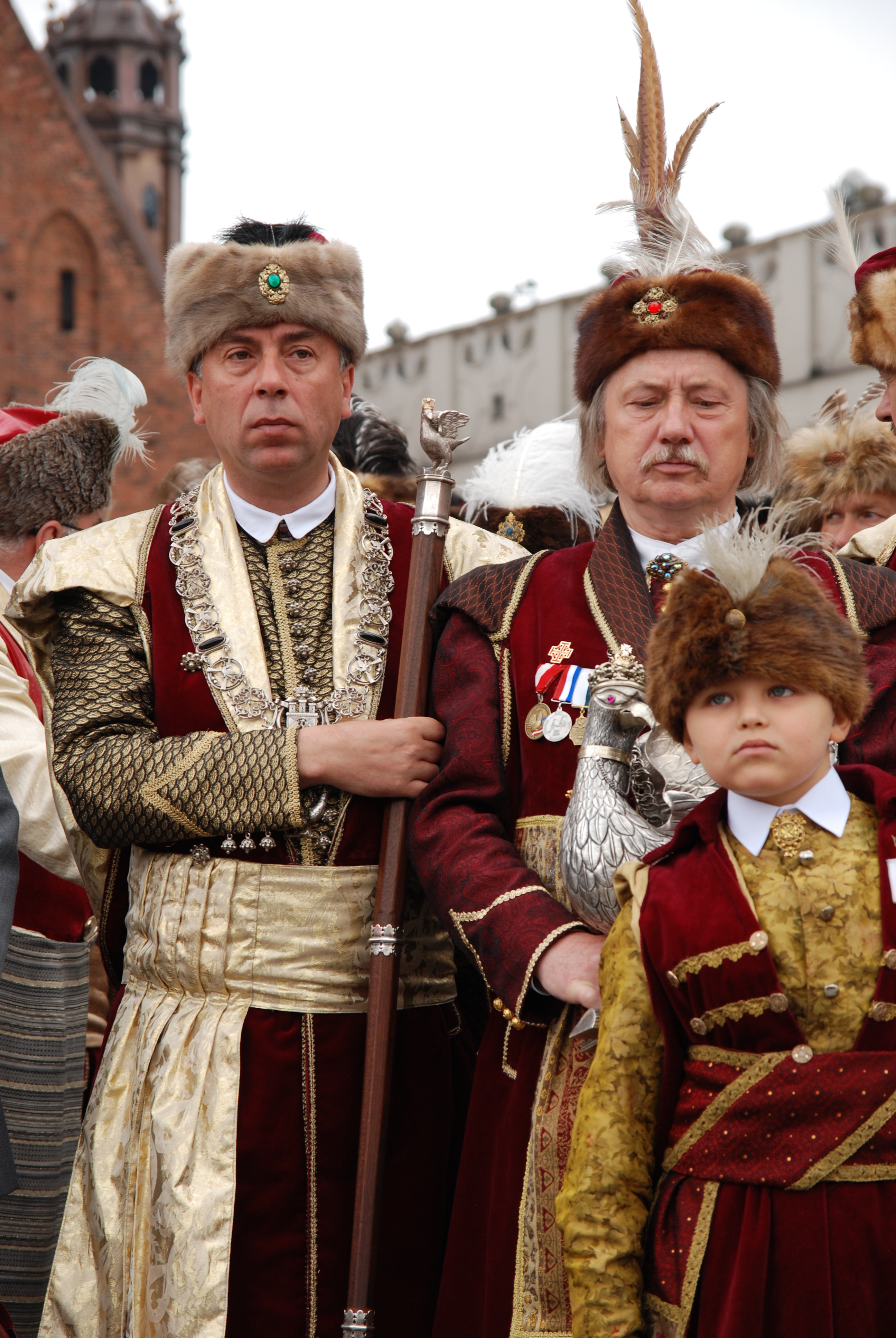 Kur's Fraternity (Shooting Society) from Kraków. On the left - czesław Dźwigaj, the king of Kur's Fraternity. Corpus Christi feat, Kraków, 2008